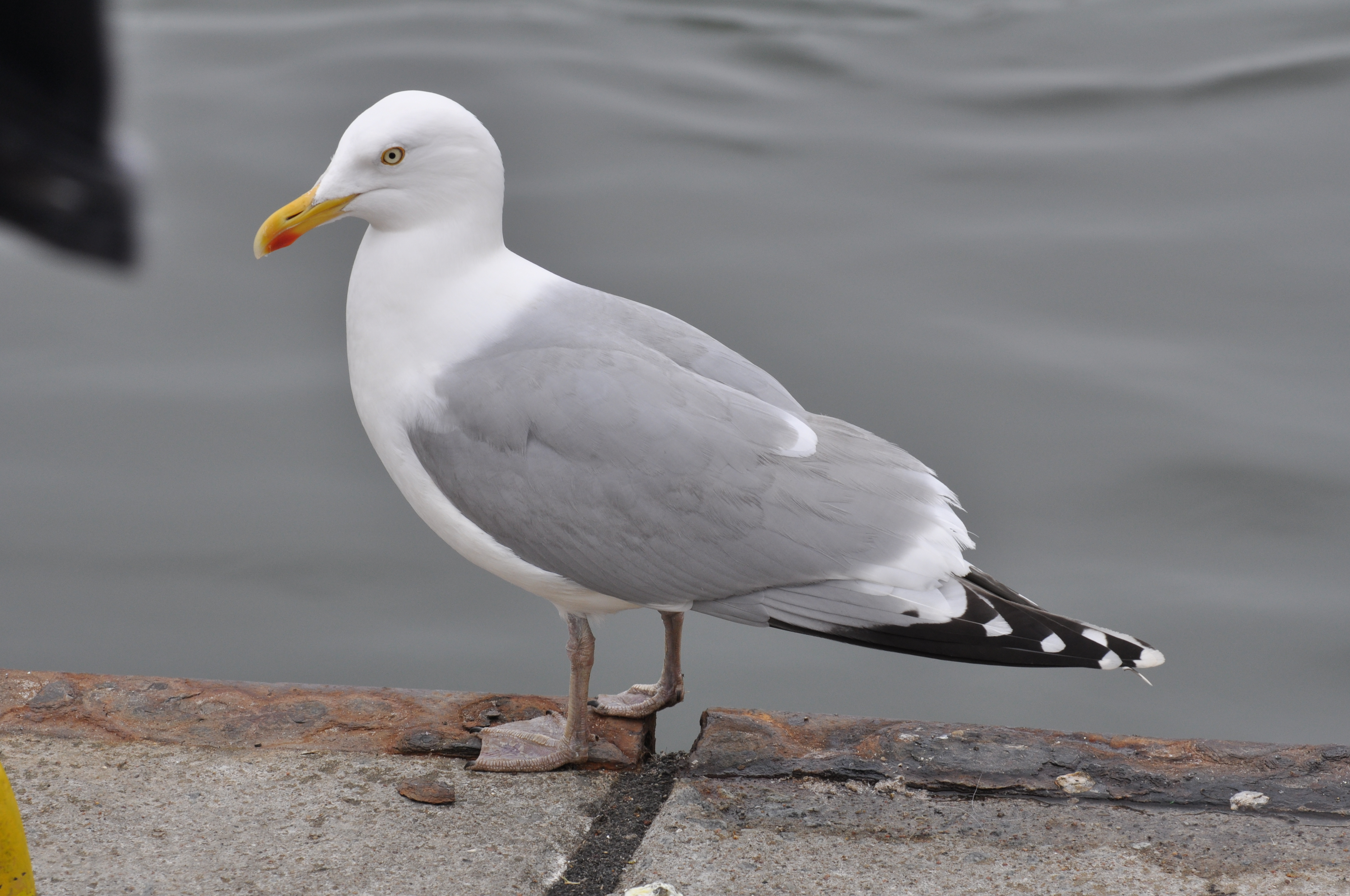 European Herring Gull in Heiligenhafen